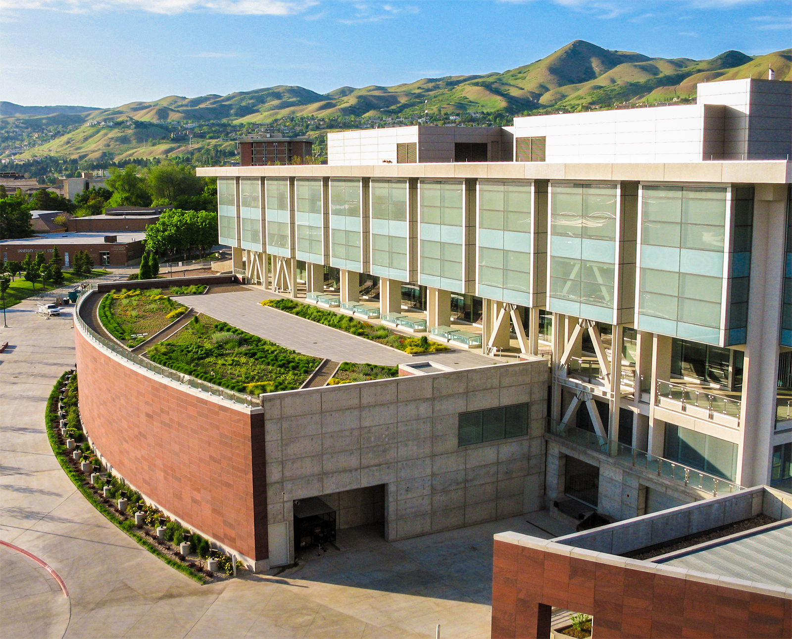 The J. Willard Marriott Library at the University of Utah campus in Salt Lake City, Utah. The loading dock is seen on the right. The 1st floor entrance is past the protruding portion of the building, which houses an automated storage and retrieval system.